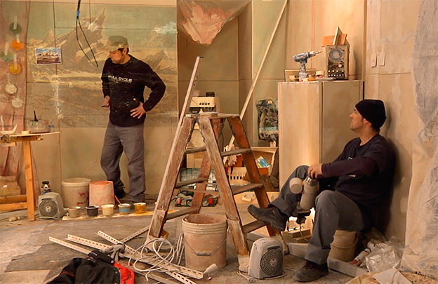 Stiftmeisters Blicke, Film, 39 min., 2015